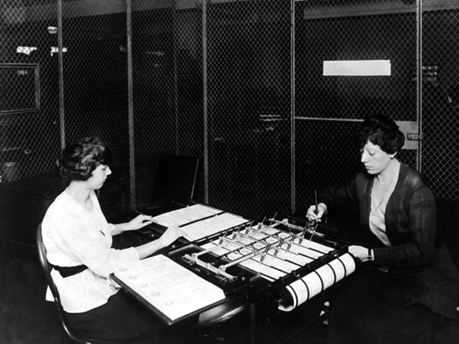 US Government employees operate a check-signing machine. Check Signing Machine, War Risk Bureau, Washington, DC, 1917. The War Risk Bureau, an agency of the US government, provided marine war risk insurance and soldiers' and sailors' life insurance during World War I.